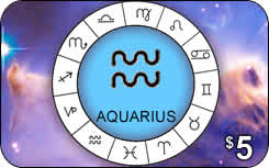 This is an image of a popular prepaid phone card for calling from the USA to the World. It is called the Aquarius phone card.